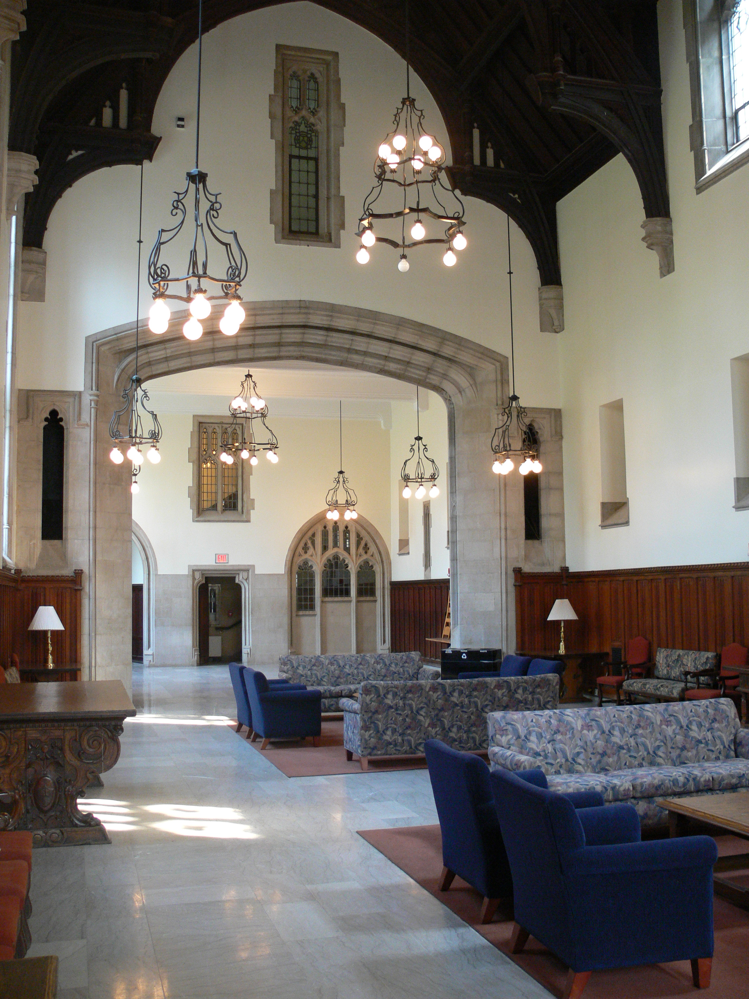 Actually the common room of Mathey College in Madison Hall. Princeton University, Princeton, New Jersey